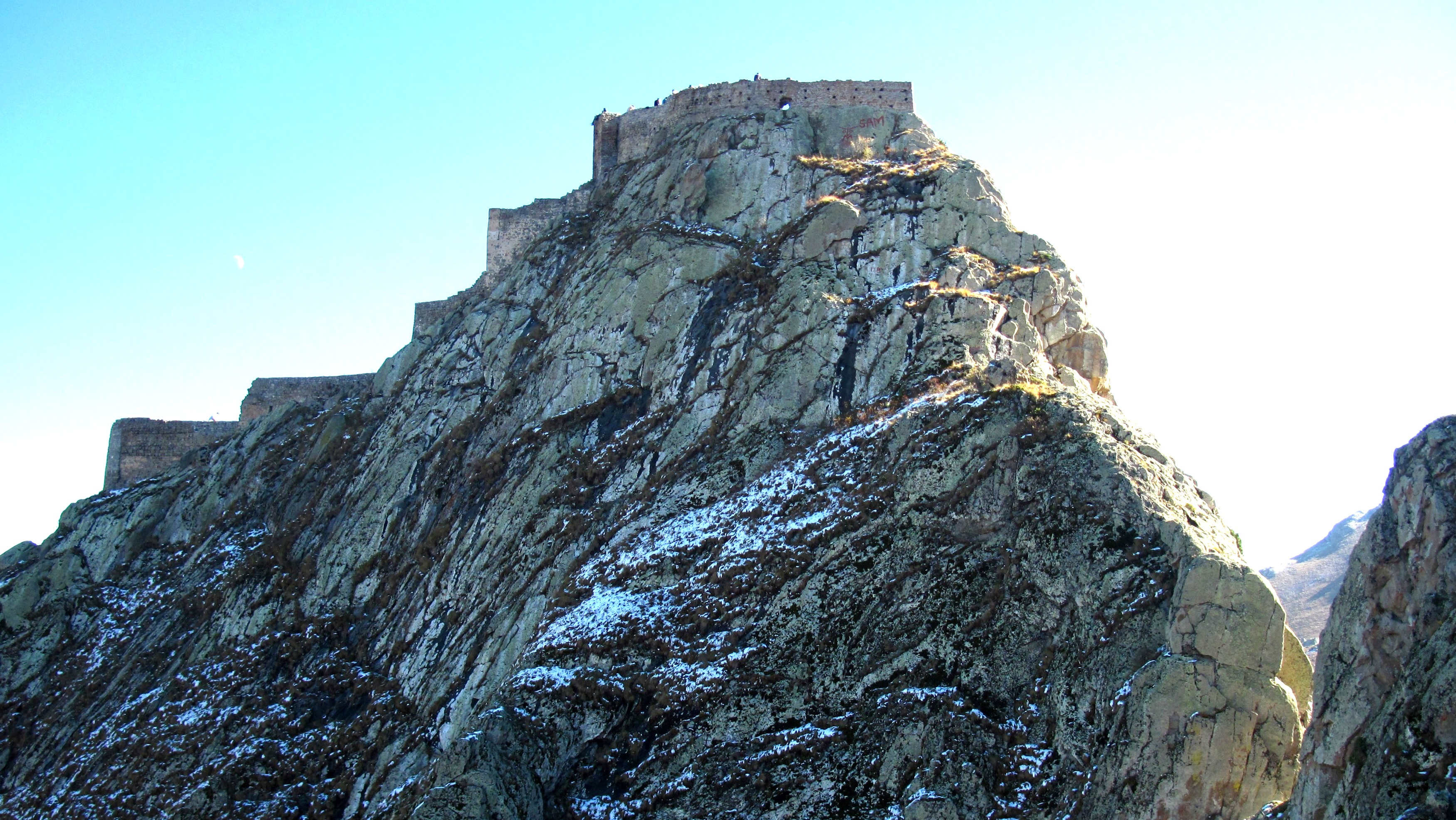 For Kaleybar page